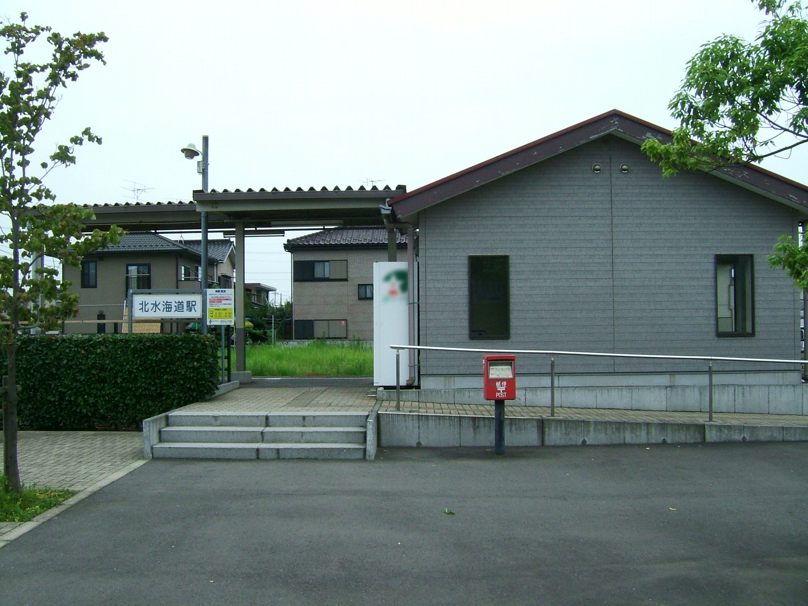 Kita-Mitsukaido Station entrance (Kanto Railway Jōsō Line)